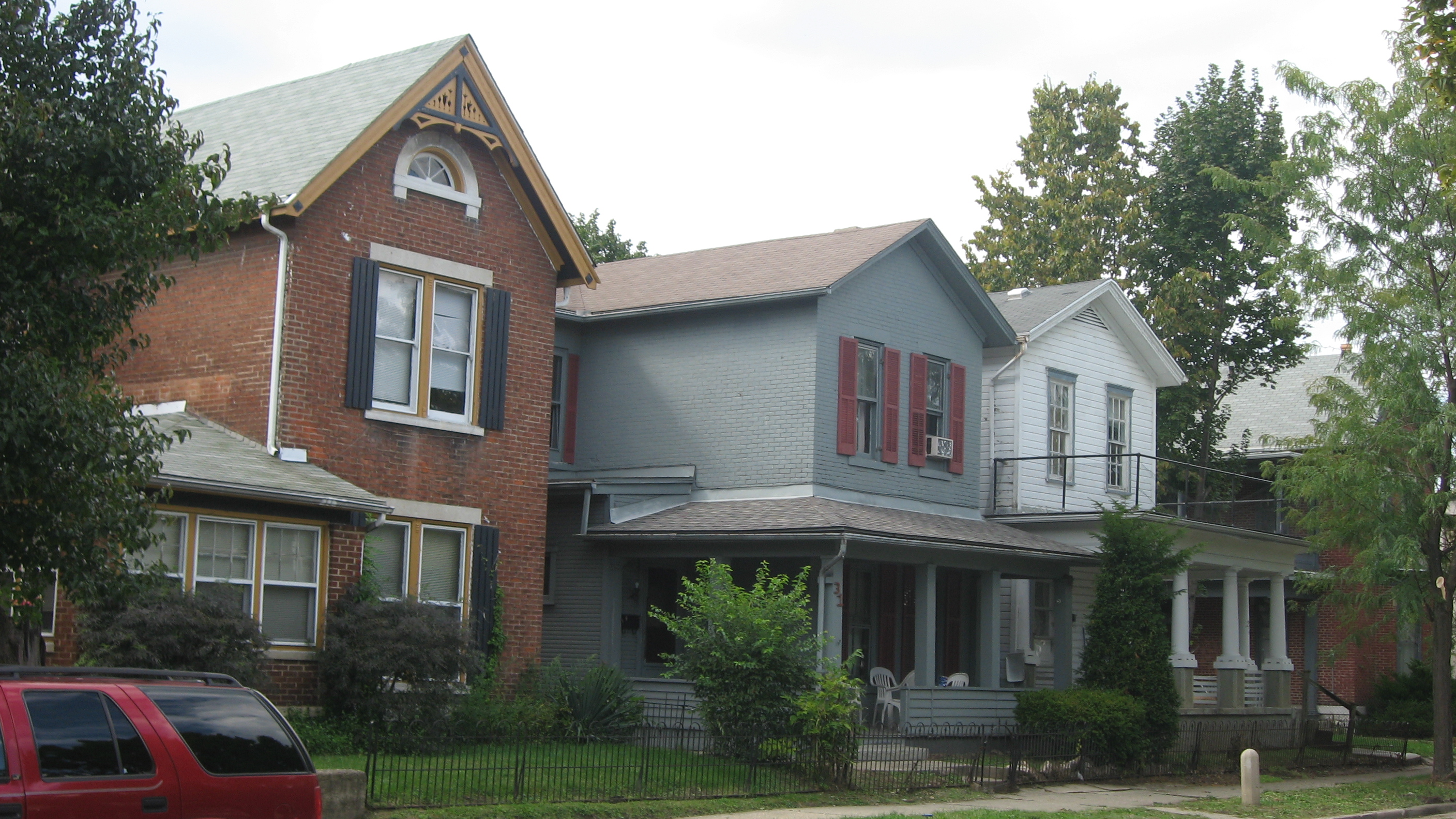 Houses on the western side of the first block of Huffman Avenue in Dayton, Ohio, United States. This block is part of the Huffman Historic District, a historic district that is listed on the National Register of Historic Places.